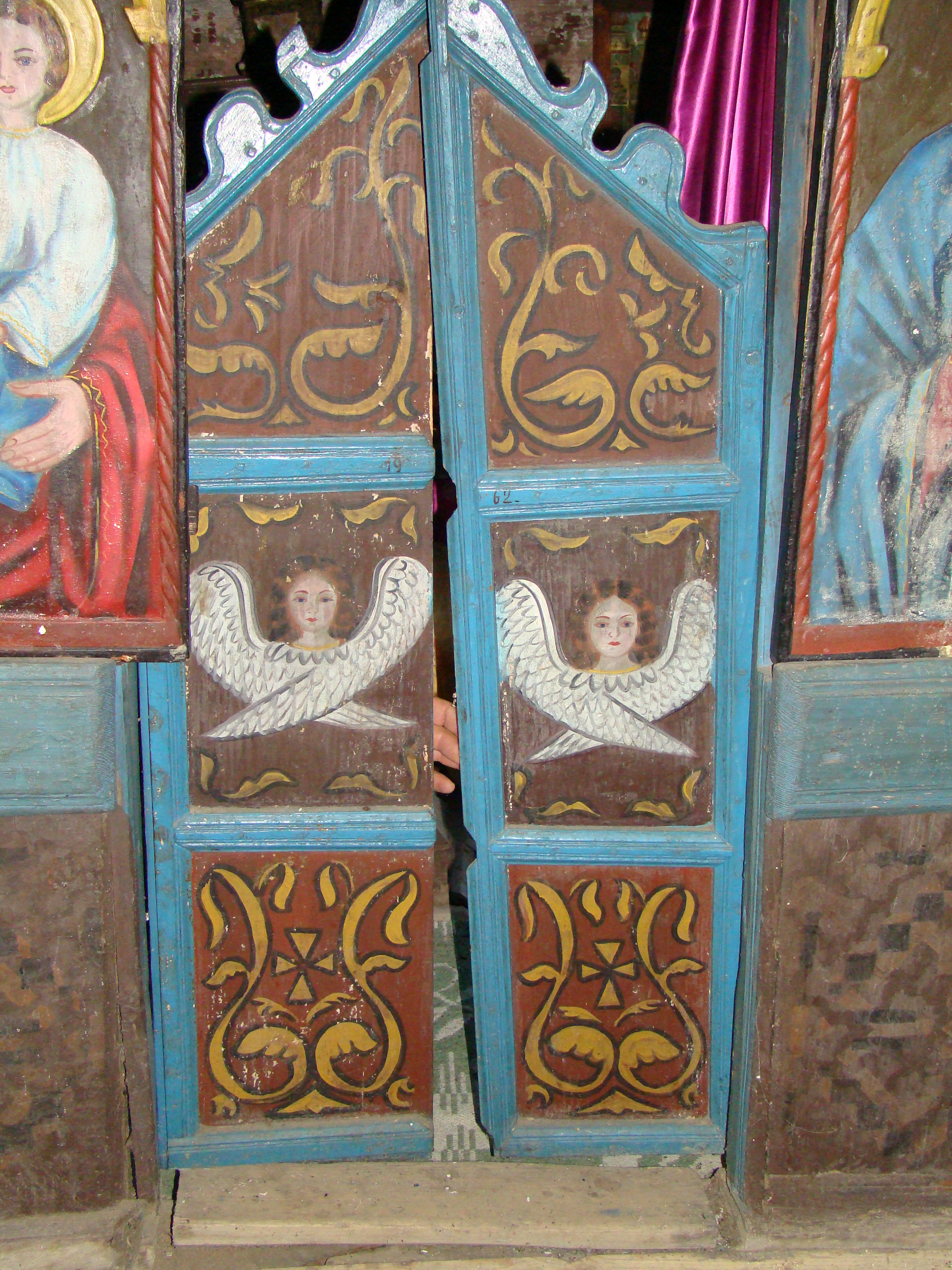 Wooden church in Apatiu, Bistrița-Năsăud county